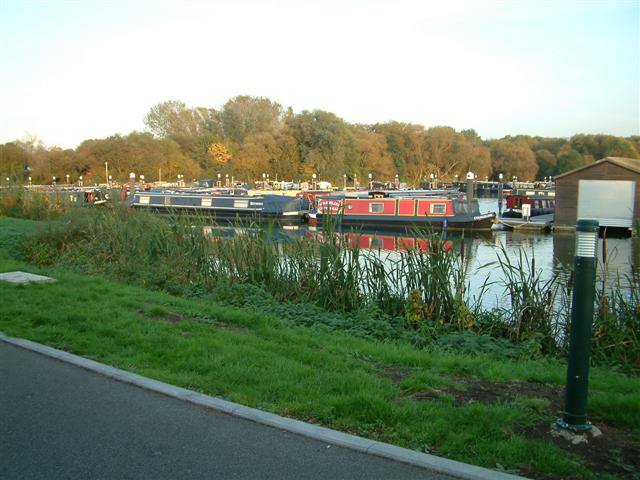 Thames & Kennet Marina, Caversham Lakes. Thames & Kennet Marina, Caversham Lakes - Once a Gravel Quarry, now a leisure facility.